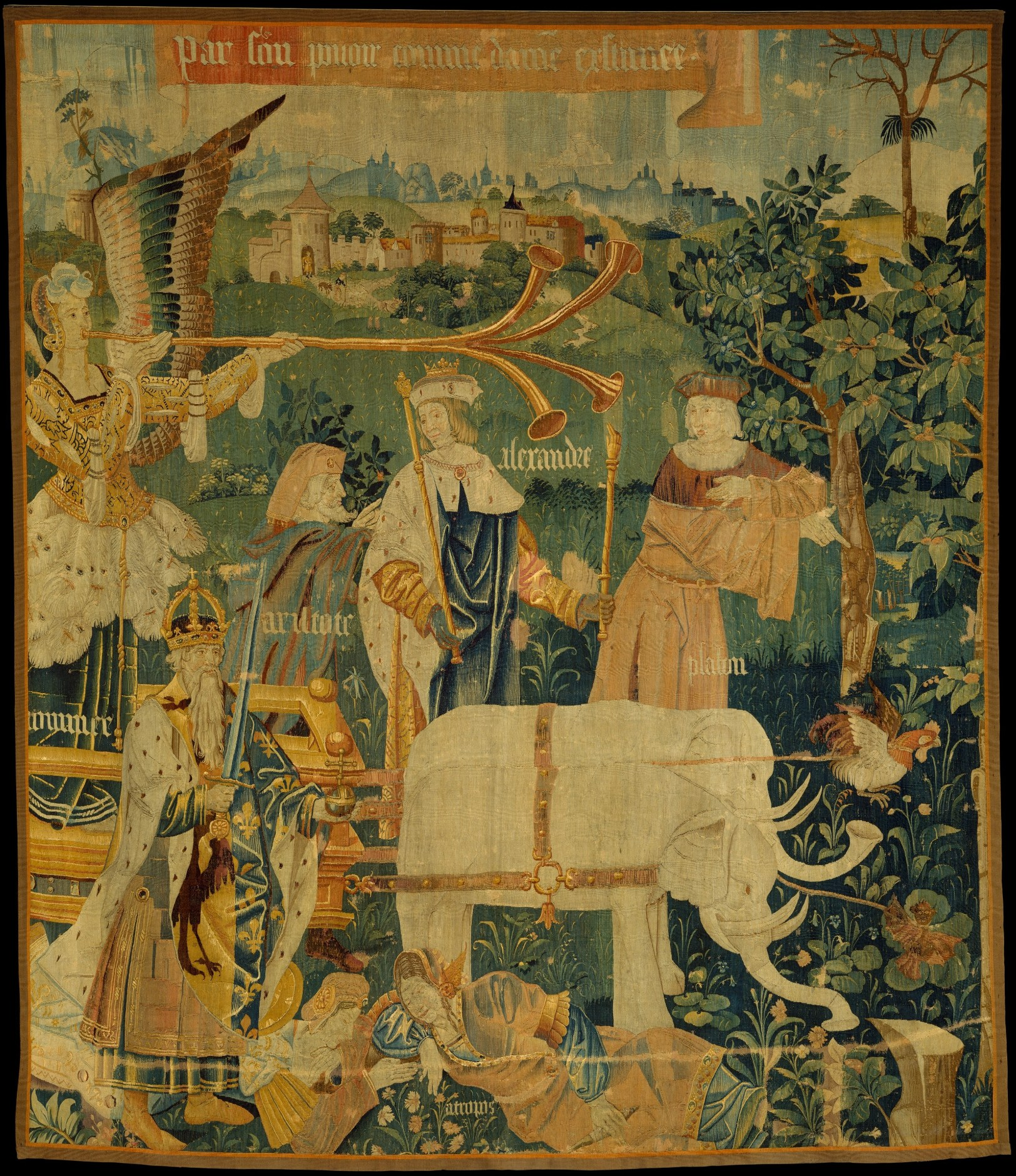 The Triumph of Fame over Death is one of Petrarch's six Trionfi. This is the remaining, right-hand side of a larger original design, seen in this image